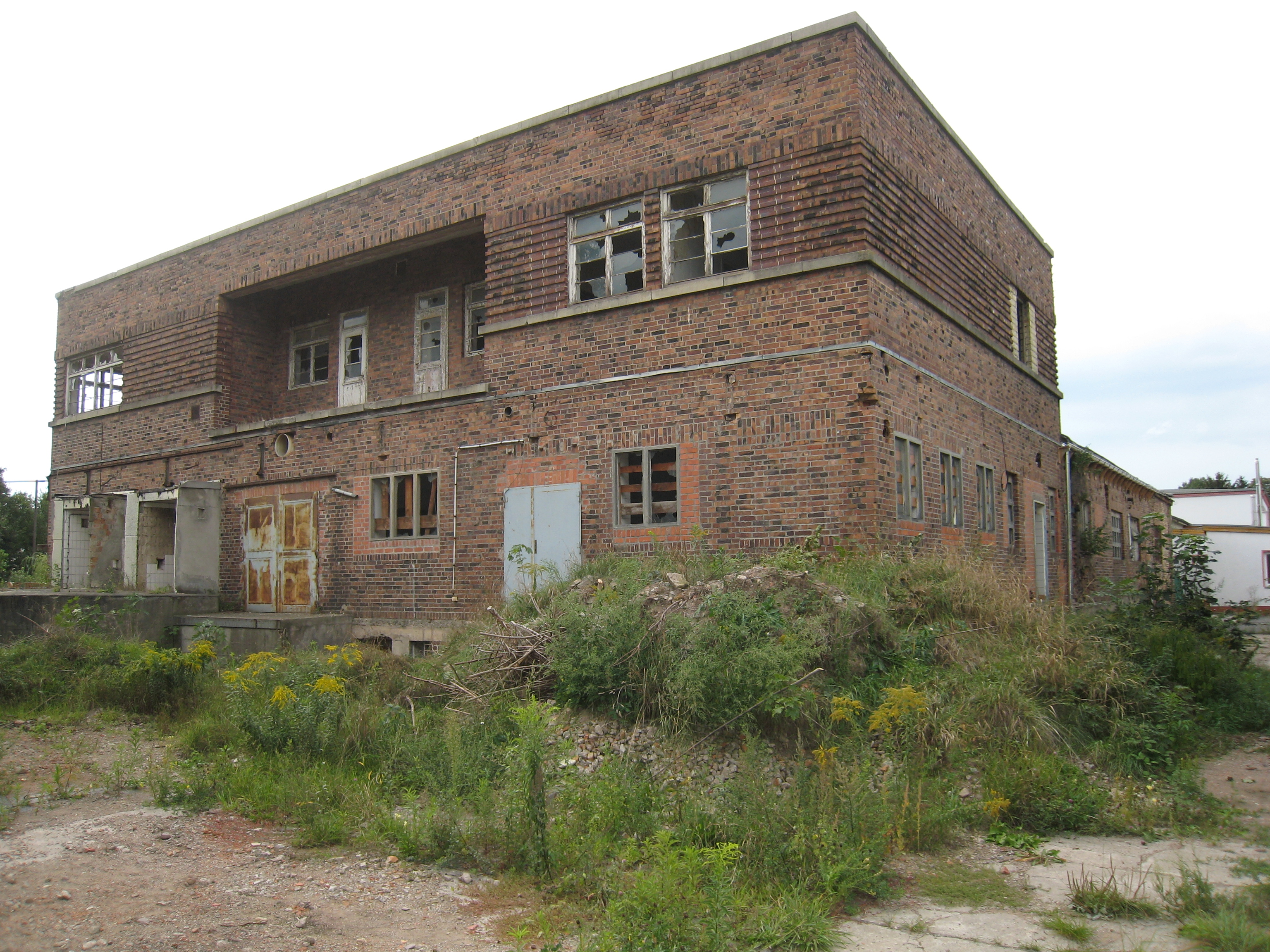 Milchhof Arnstadt